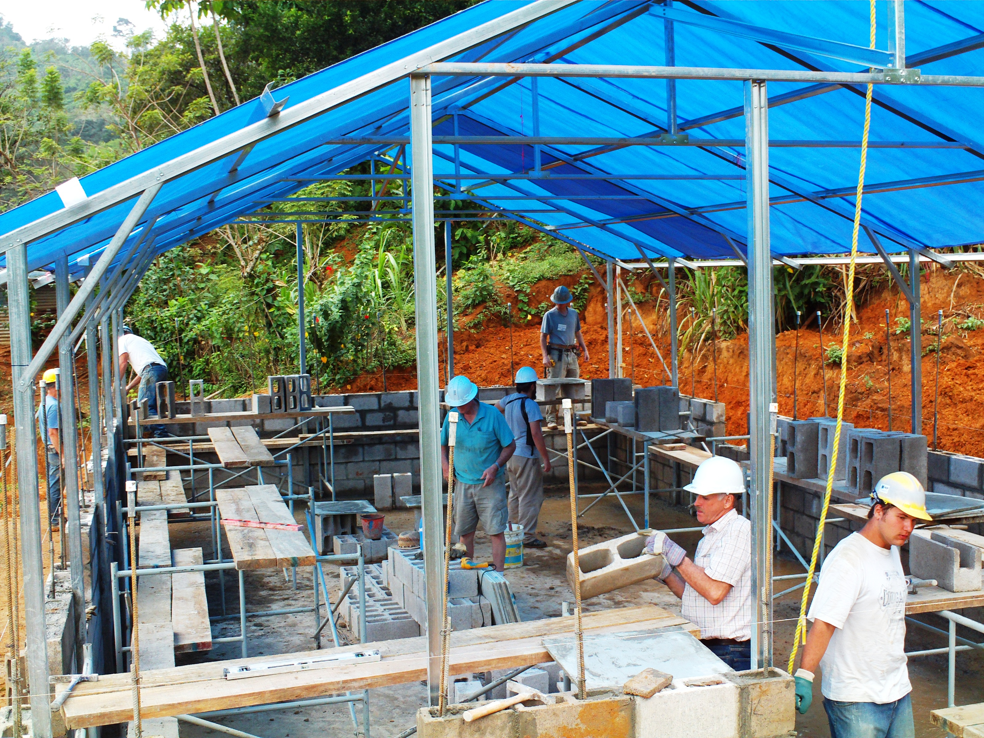 Maranatha Volunteers International building a "One-Day Church" in Bebedero, Chiapas, Mexico.